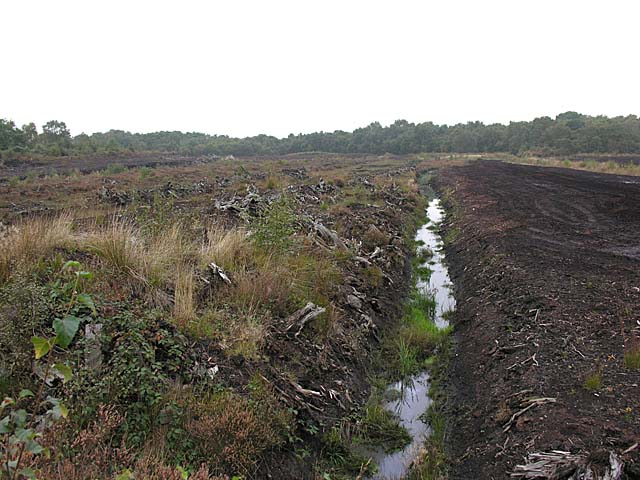 Peat workings. Lindow and Saltersley Mosses have been extensively worked for peat and this continues today. There is a lot of prehistoric timber mixed in with the peat as can be seen here.